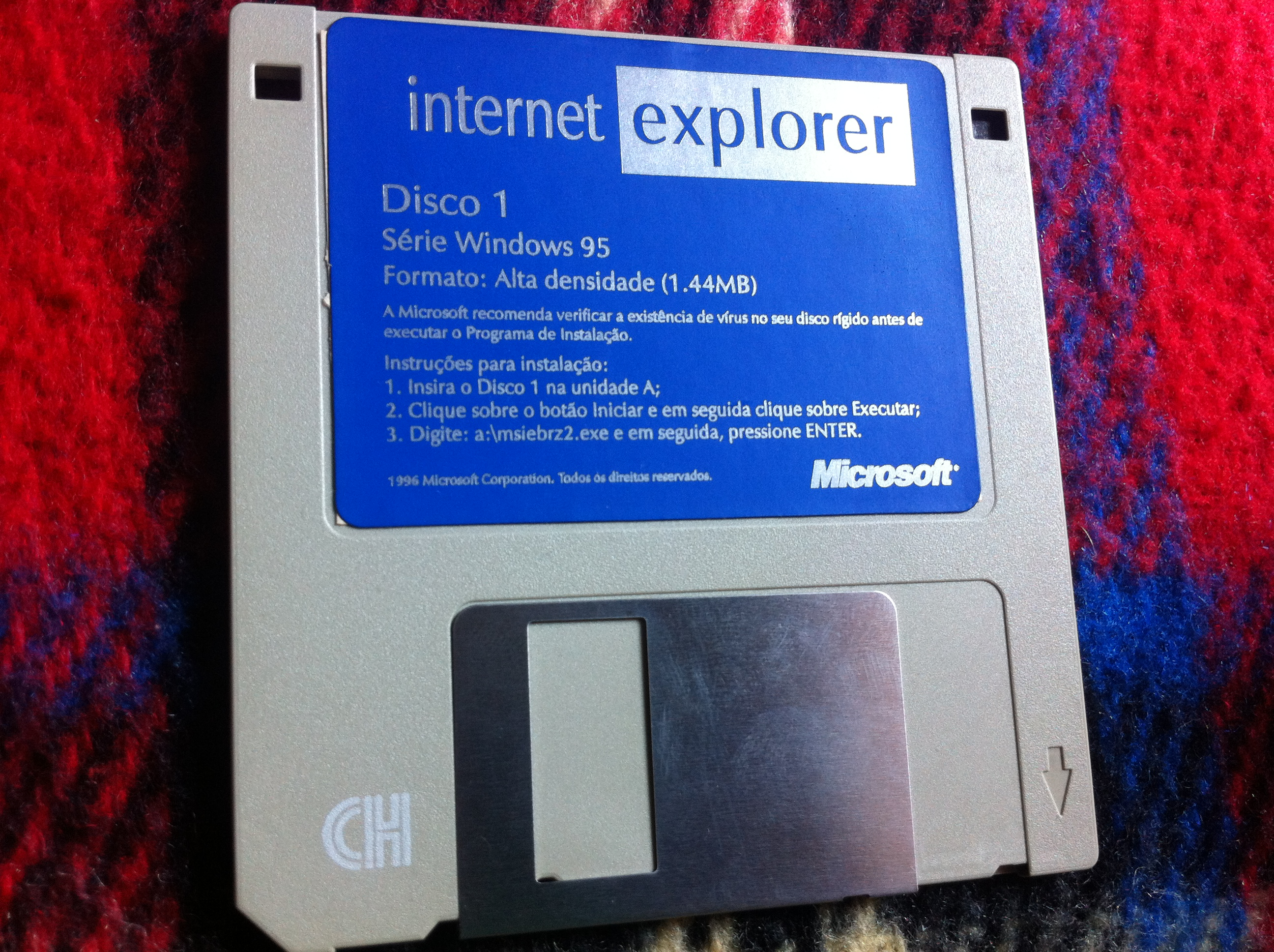 Internet Explorer for Windows 95, Spanish, Disco 1 (sic)